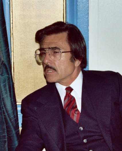 Announcer ("Laugh-In") and DJ Gary Owens at the 1982 San Diego Comic Con (today called Comic-Con International). NOTE: Permission granted to copy, publish, broadcast or post any of my photos, but please credit "photo by Alan Light" if you can. Thanks